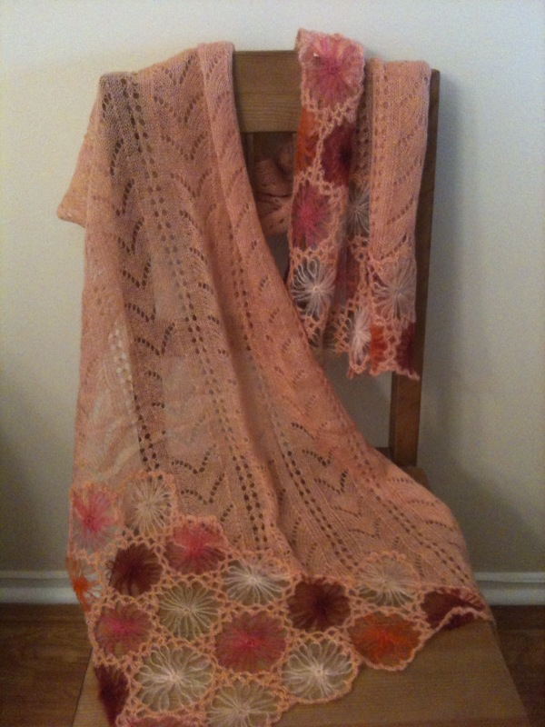 Mohair lace knitted and crocheted scarf